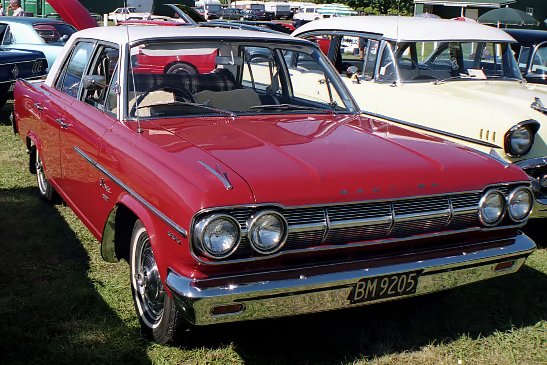 1965 Rambler Classic 660 four-door sedan in Auckland,New Zealand